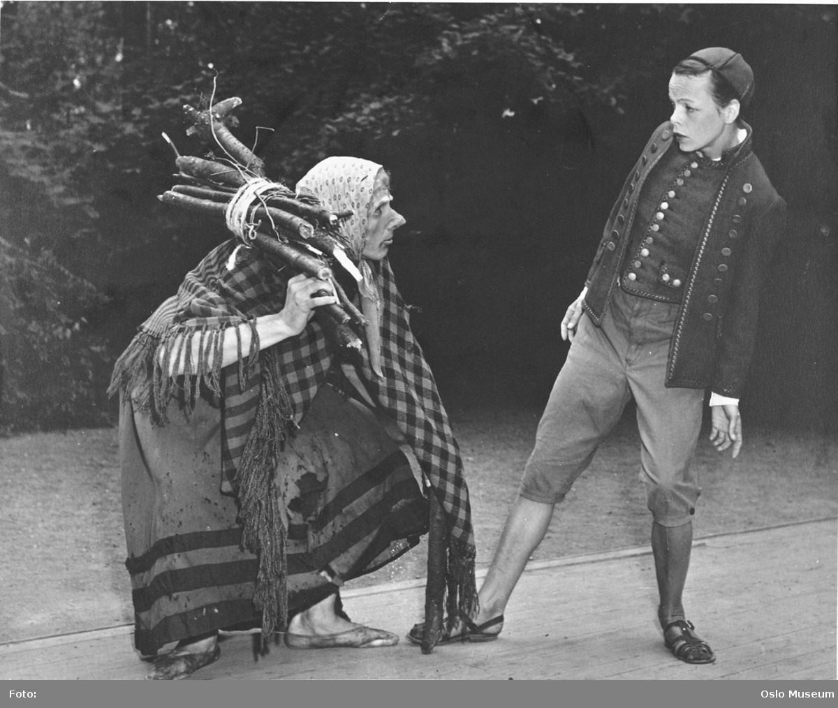 Norwegian ballet ensemble Ny Norsk Ballett (active 1948–1955), scene from the "Veslefrikk" performance in 1950.